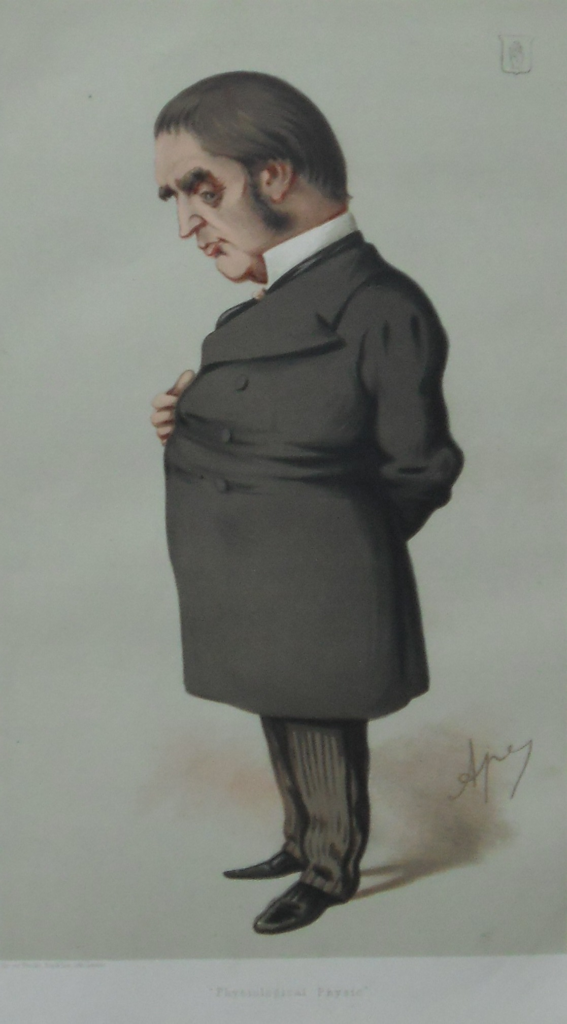 Caricature of Sir William Withey Gull, one of four physicians-in-ordinary to Her Majesty Queen Victoria. It was published with the caption "Physiological Physic". The artist was Carlo Pellegrini, known as "Ape", whose earlier 1869 caricature of Benjamin Disraeli was the first of a series of over 2000 caricatures published in Vanity Fair magazine, featuring prominent personalities of the time.